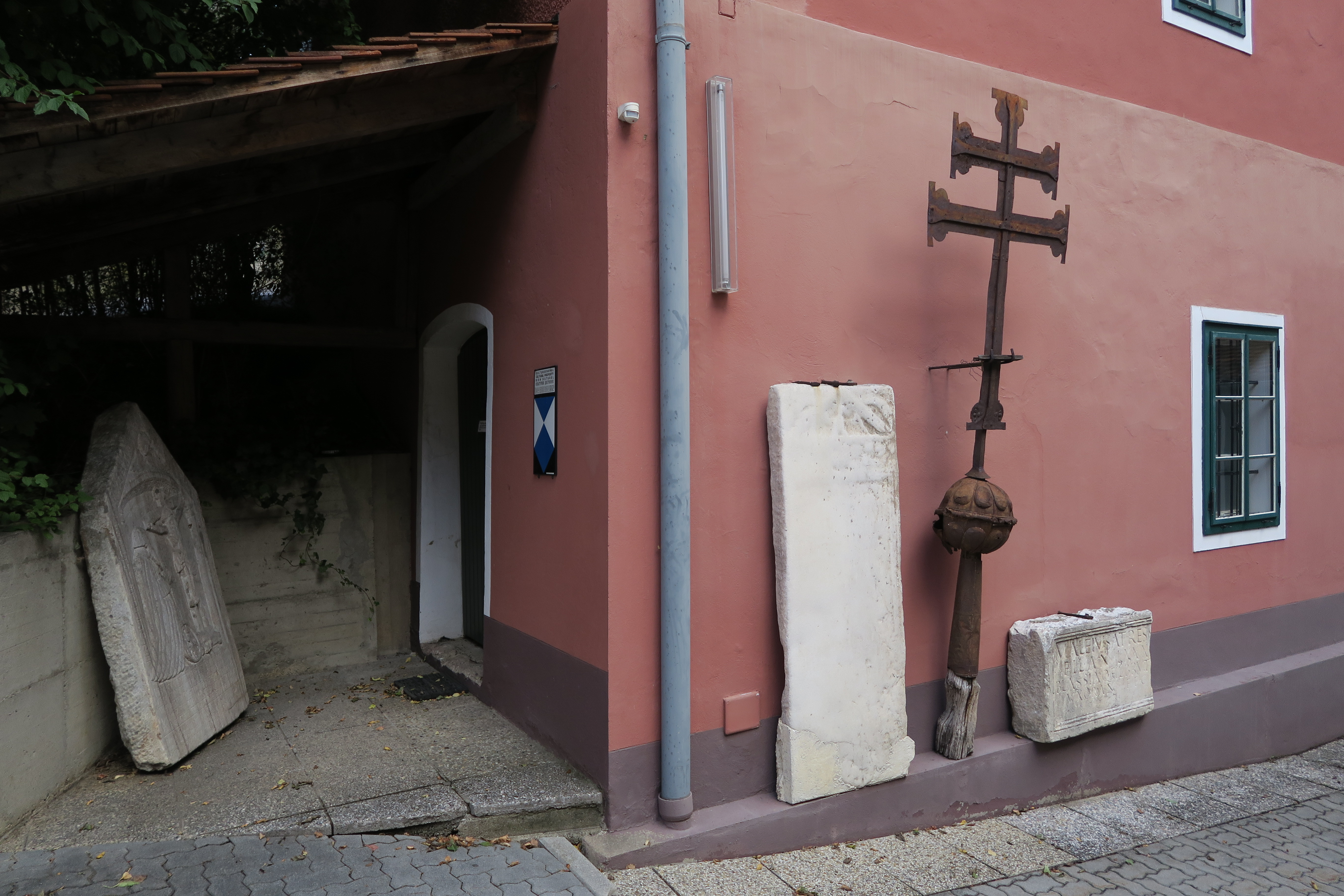 Pischelsdorf Färberturm Museum